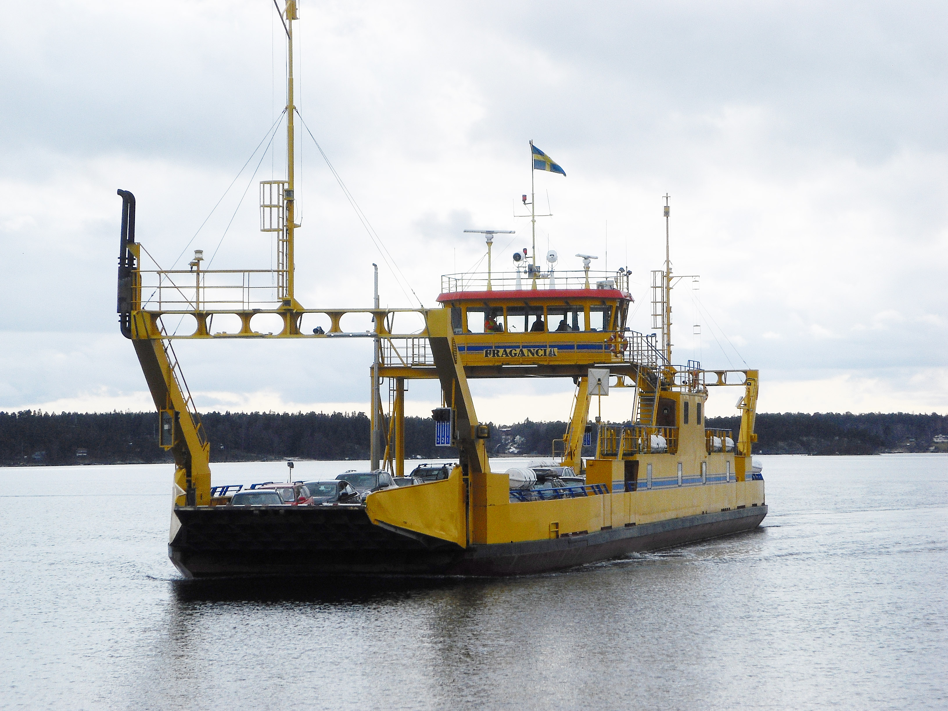 Ferry at Oxdjupet, Sweden